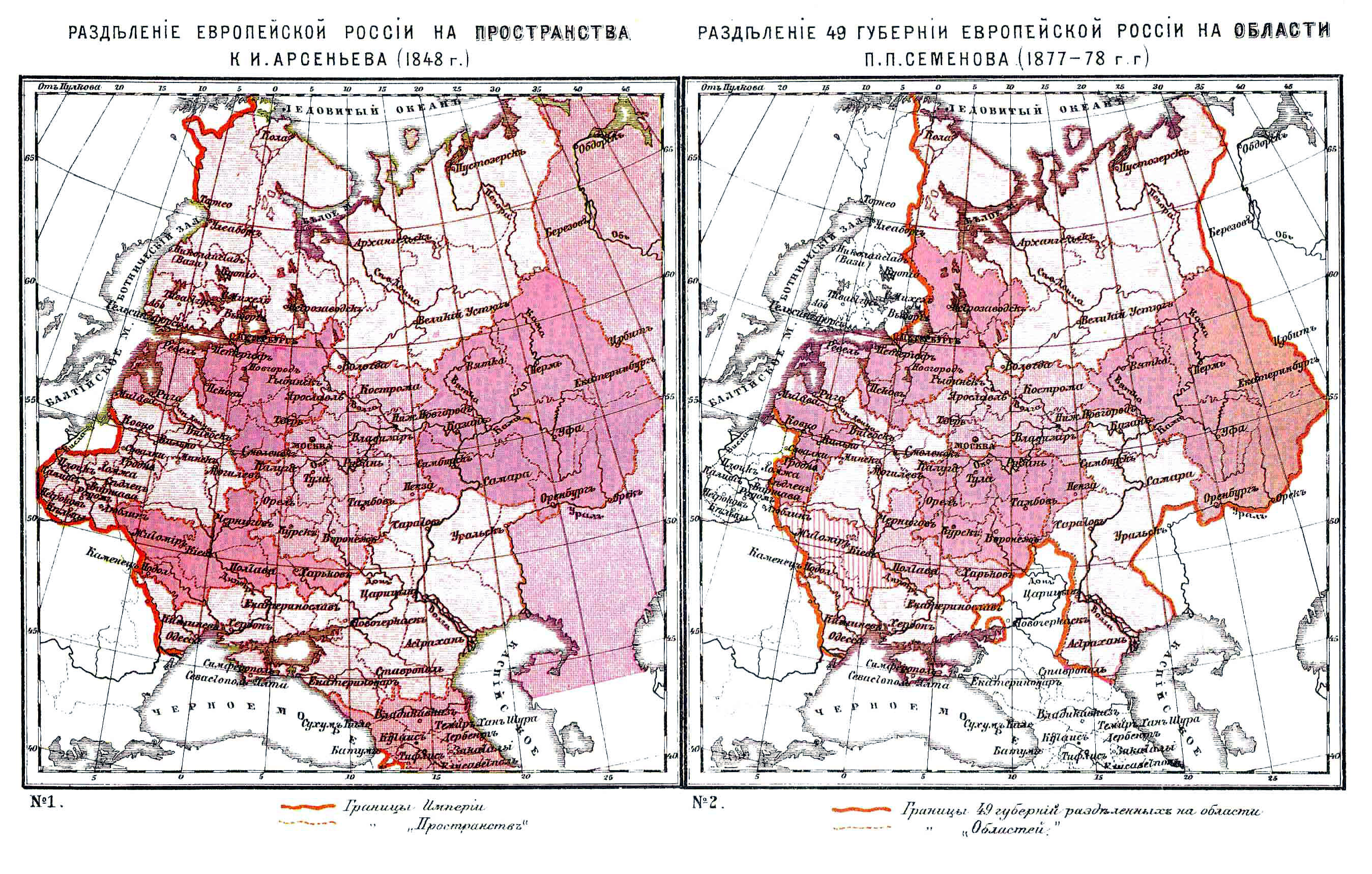 Illustration from Brockhaus and Efron Encyclopedic Dictionary (1890—1907)